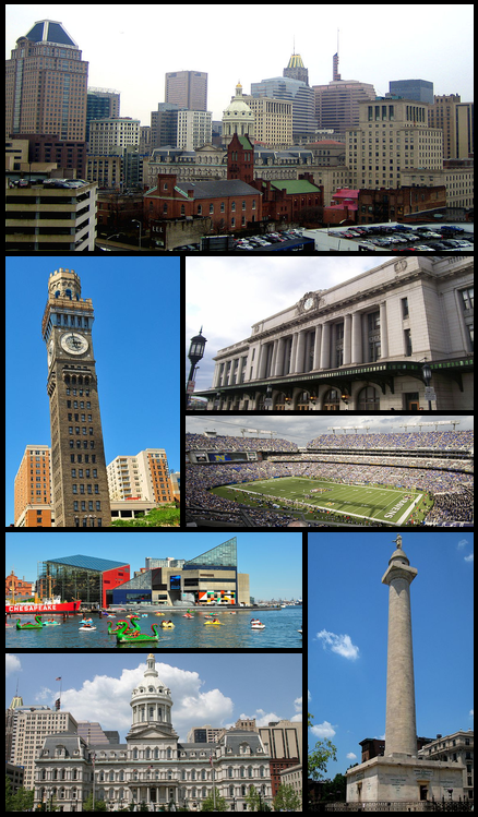 Photos taken around Baltimore. Every photo present has been placed into the PUBLIC DOMAIN and therefore needs no citation for sources.